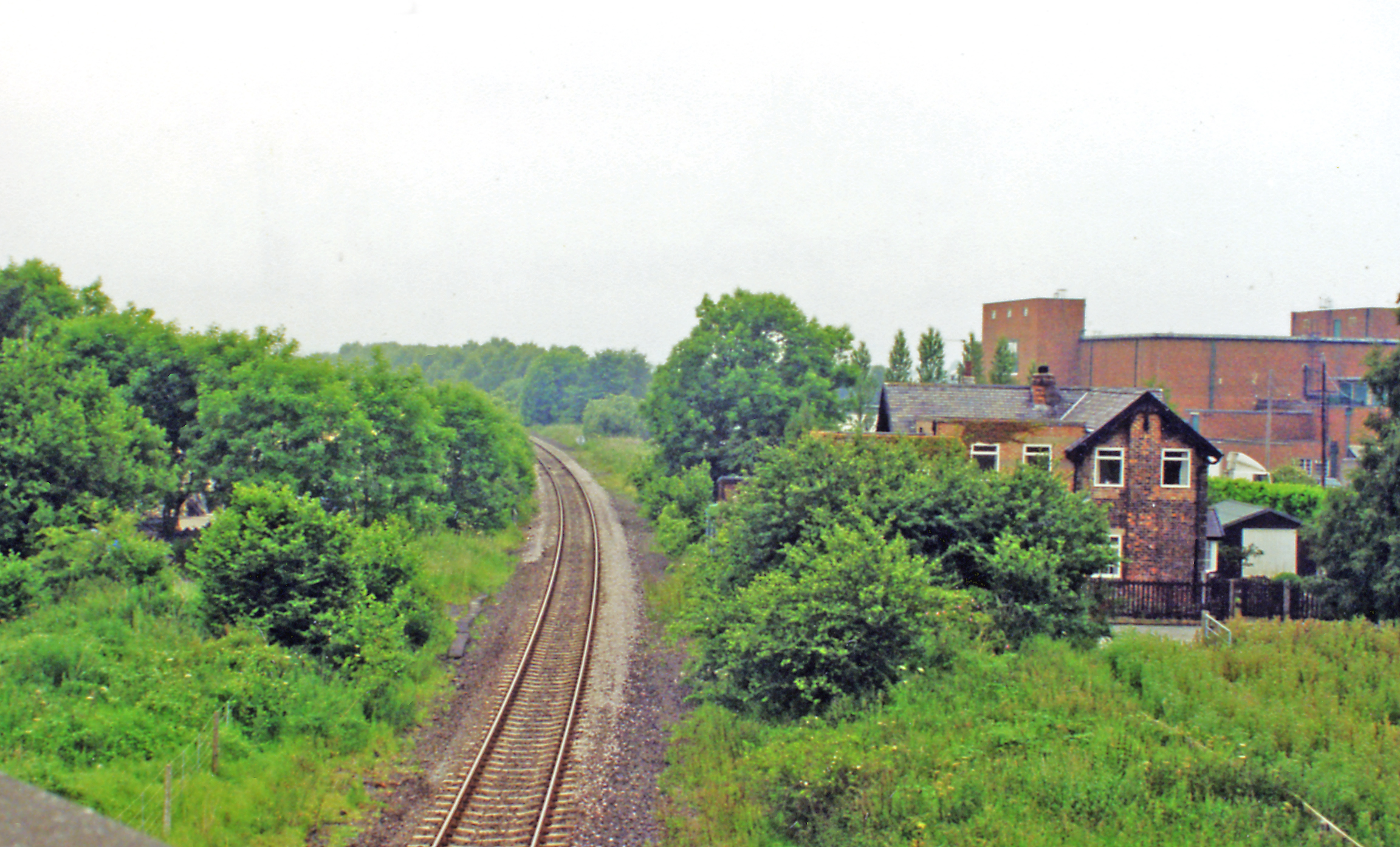 Site of Goldsborough station, 2000. View westward, towards Harrogate: ex-NER York - Harrogate line. The station closed to passengers 15/9/58 (to goods 3/5/65), but the line remains open with a good local passenger service